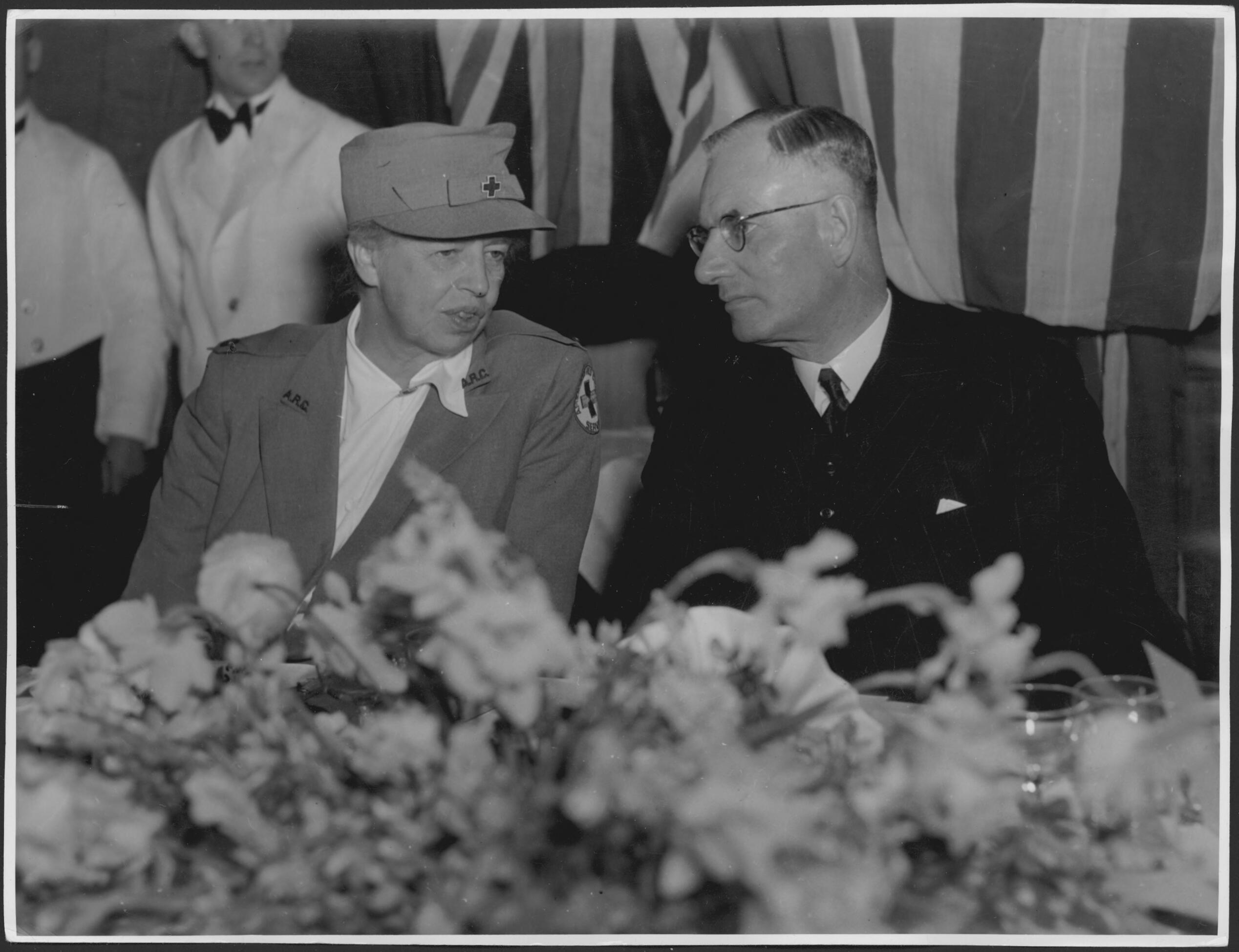 Eleanor Roosevelt, First Lady of the United States, with John Curtin, Prime Minister of Australia, at a state luncheon in her honour at Parliament House, Canberra.